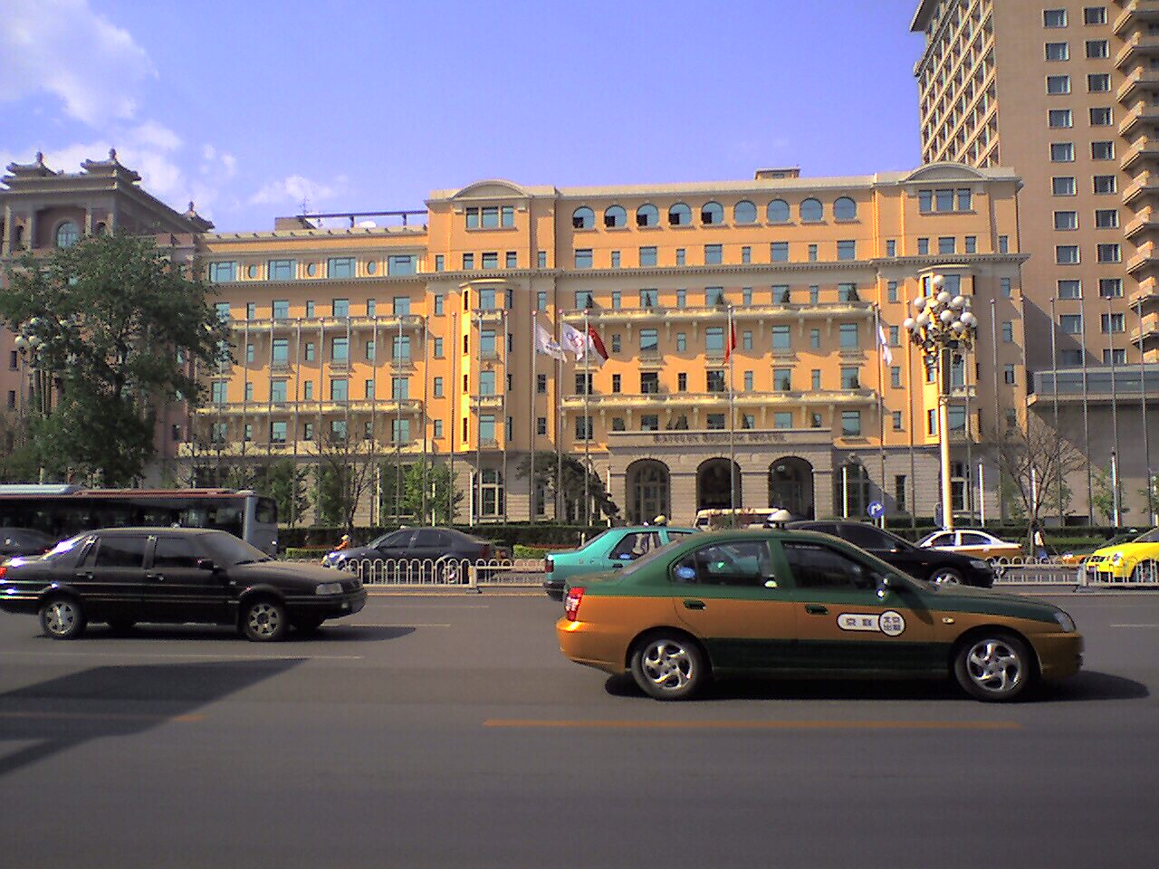 Raffles Beijing Hotel, taken from Jianguomen Dajie